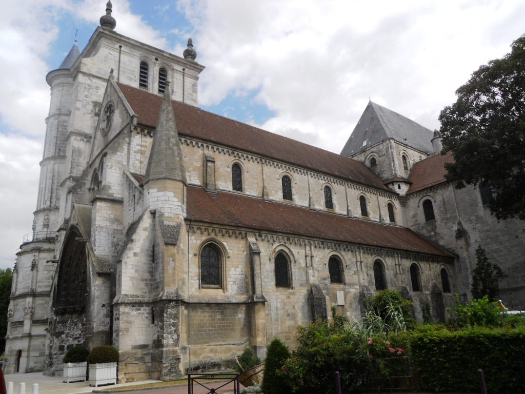 Beauvais, St. Etienne from SW